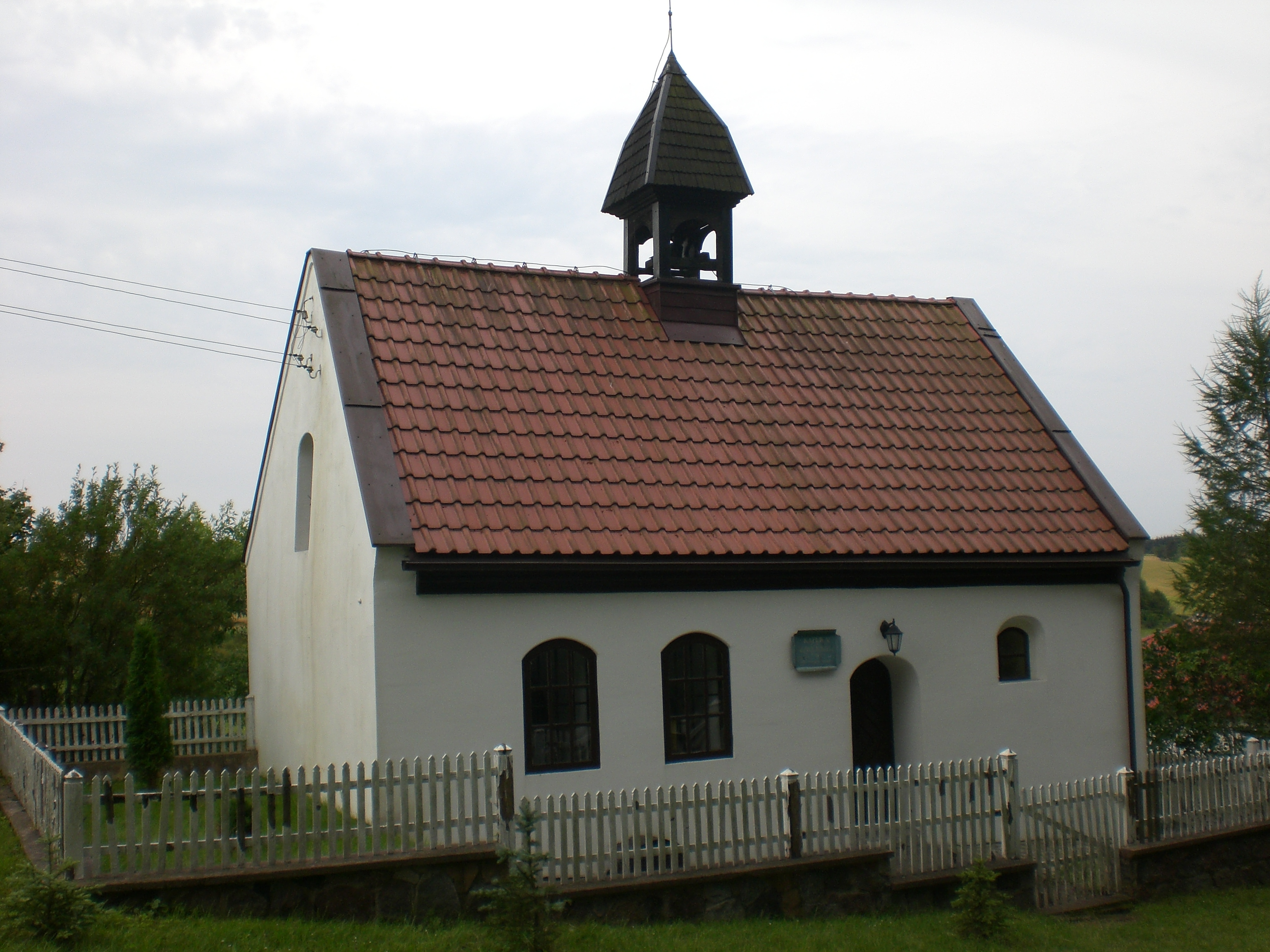 Mirachowo - chapelle from XVIII century